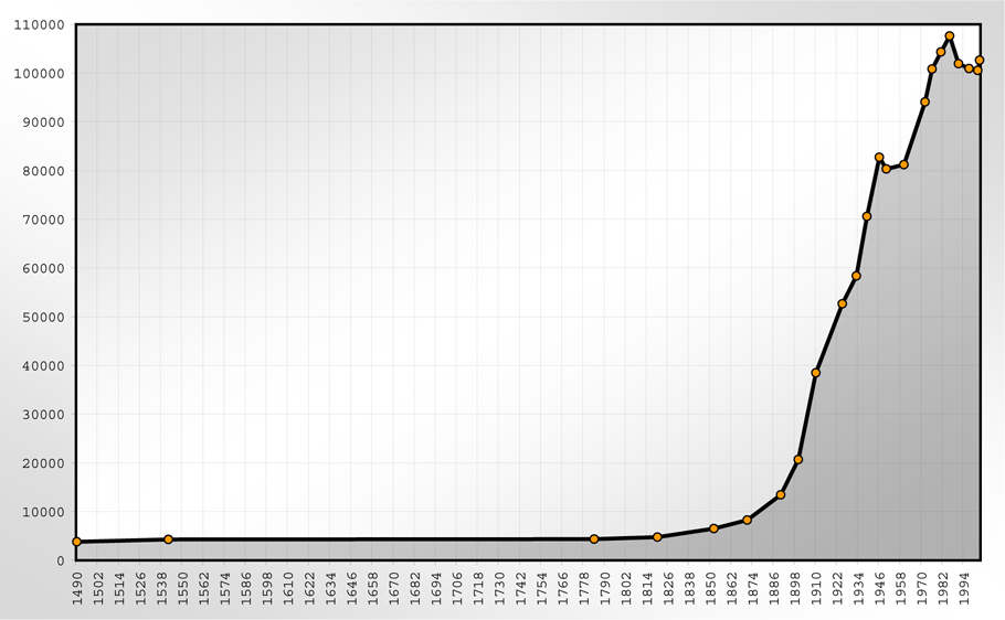 This image shows the population statistics of Jena (Germany).